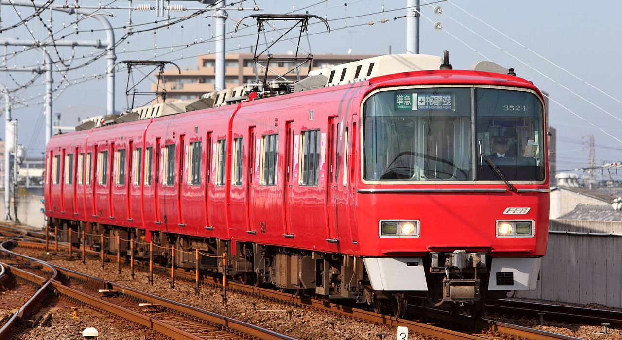 Meitetsu 3500 series (II) EMU ( 3524F at Tokoname Stn.)